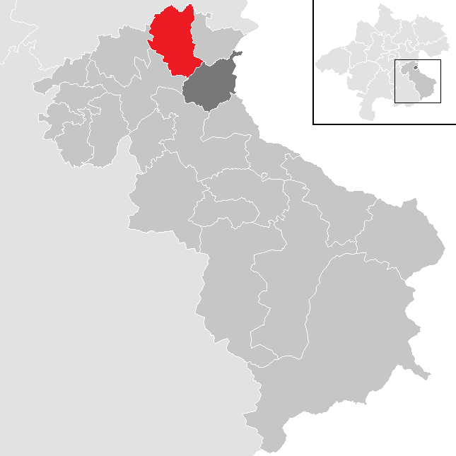 district Steyr-Land